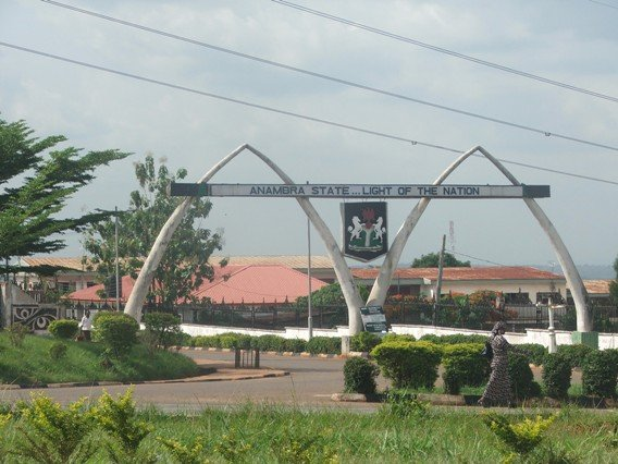 Anambra Government House